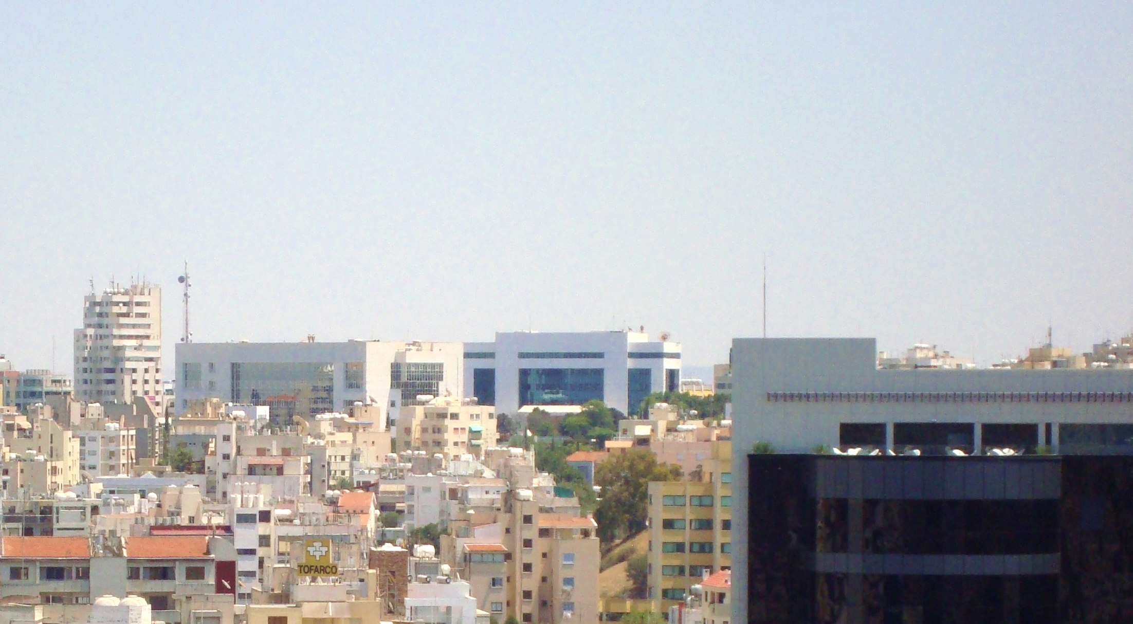 Nicosia view with central bank of Cyprus in the back- Republic of Cyprus